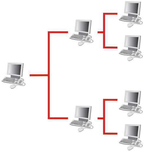 Branchy type of network